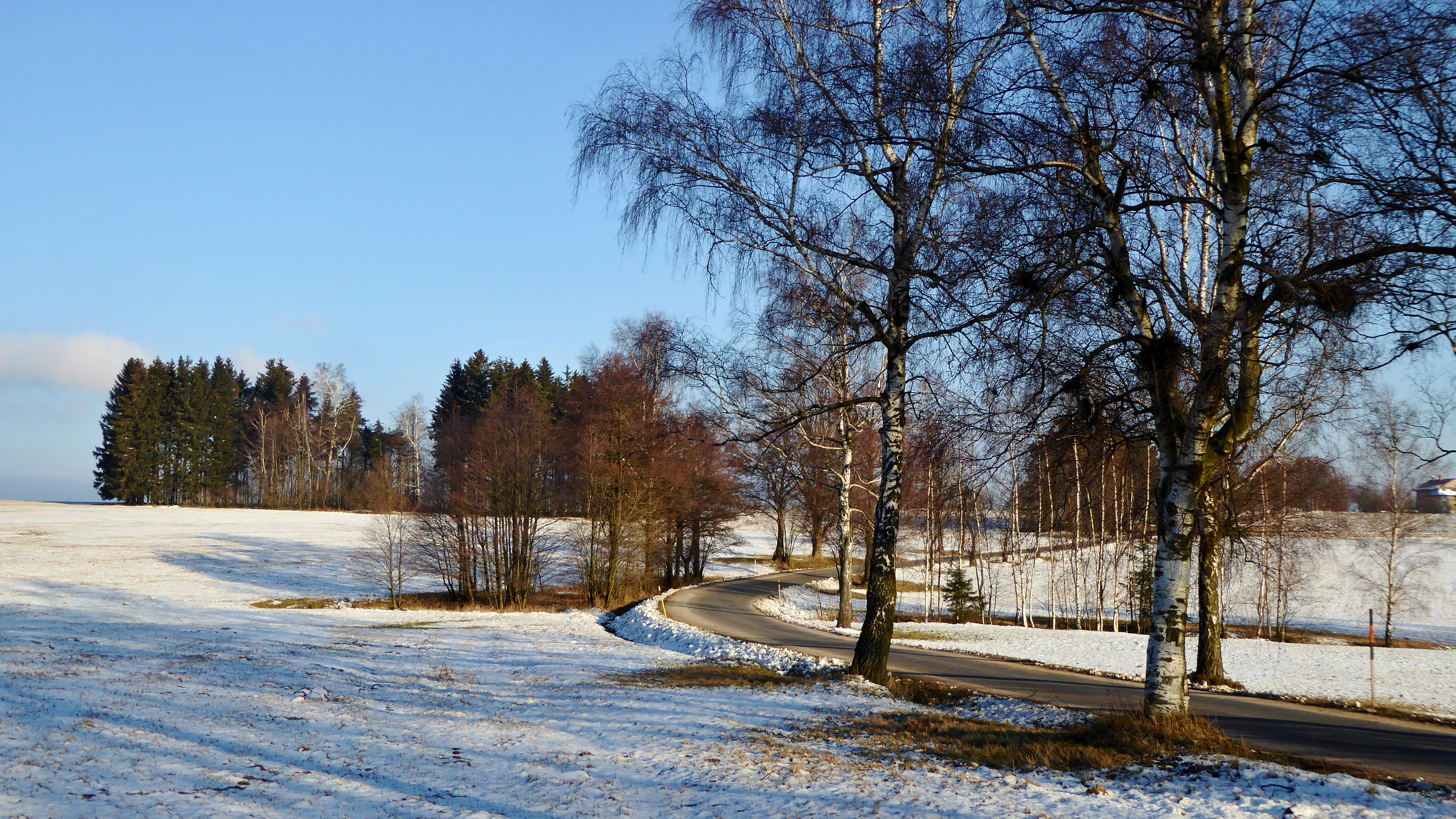 The springs area of "Chrudimka" river near the village "Dědová", source on a meadow is led by a pipe, the watercourse in the trough appears near the road "Dědová – Kameničky". Photo locality: Czechia, Pardubice Region, municipality Dědová, geomorphological district with name the "Kameničská" Highlands, source of river "Chrudimka".